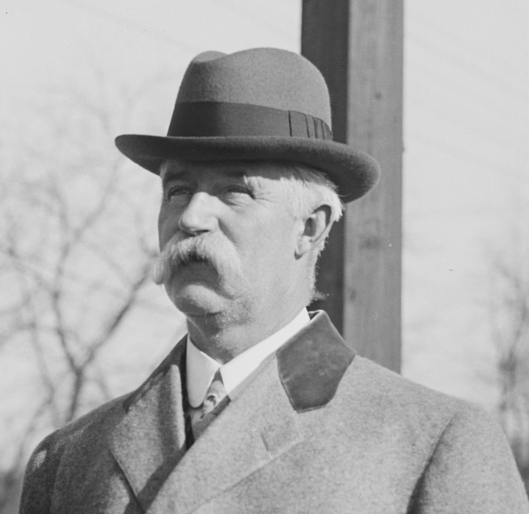 Title: Longboat and Tom Eck Abstract/medium: 1 negative : glass ; 5 x 7 in. or smaller.